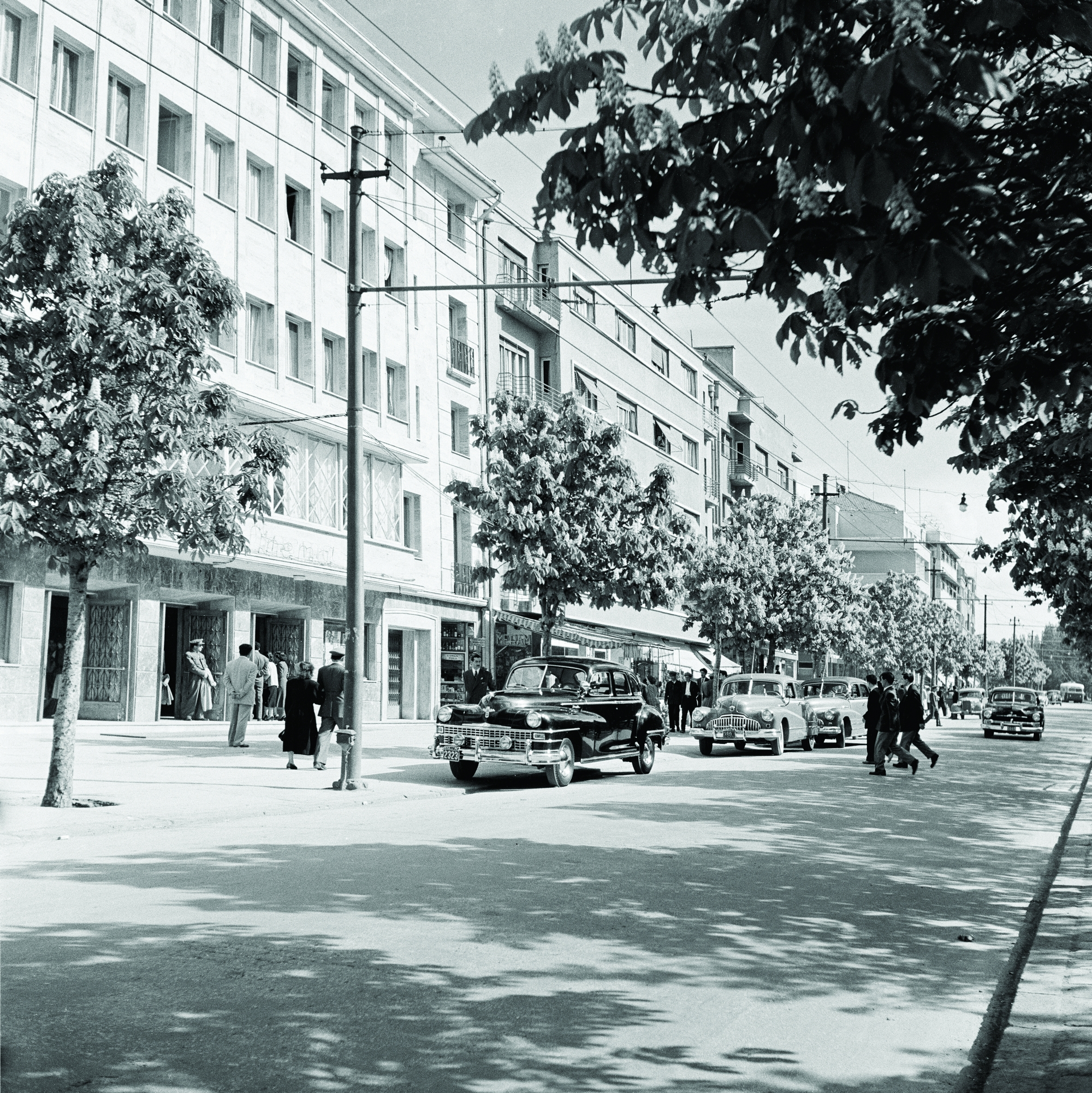 From left to right: Grand Movie Theatre, And (Pledge) Apartment Building of Turgut Demirdağ and Bulvar Apartment Building of Öztrak Family. It is not in the photo yet, but İşçi Sigortaları Hanı (Workers’ Insurance Office) would be built in 1952 on the empty lot. The ground for the Grand Movie Theatre was broken in 1947. It was designed by architect Abidin Mortaş. The building’s capacity allowed an audience of 1550 people. It was quite luxurious. The personnel were well-dressed. The theatre was opened with the movie Deception on January 17, 1949. Film premieres were special events. People would wear their best clothes on Monday nights as if they were going to an opera. Atatürk Bulvarı, Büyük Sinema ve İş Hanı, 1950’li yıllar. Soldan itibaren Atatürk Bulvarı’nda Büyük Sinema, yanında Turgut Demirağ’ın And Apartmanı, onun yanında Öztrak ailesinin Bulvar Apartmanı. Fotoğrafta görülmüyor; ama yanındaki boş arsaya, Tuna Caddesi’nin köşesine 1952’de İşçi Sigortaları Hanı yapılacaktır. Büyük Sinema’nın temeli 1947’de atıldı. Mimarı Abidin Mortaş’tı. 1550 seyirci alıyordu. Konforluydu. Personeli özel giyimliydi. Sinemanın perdesi 17 Ocak 1949 günü Zehirli Yalan (Deception) filmiyle açıldı. Galaların özel bir yeri vardı. İnsanlar, pazartesi geceleri olanca şıklıkları içinde, operaya gidermiş gibi giderlerdi Büyük Sinema’ya. Türk filmlerine nadir olarak yer verilirdi. Sesi radyodan, taş plaklardan bilinen, çok merak edilen Zeki Müren, ilk konserini 19 Kasım 1953 günü Büyük Sinema’da verdi. Sinema her etkinliğe açıktı.